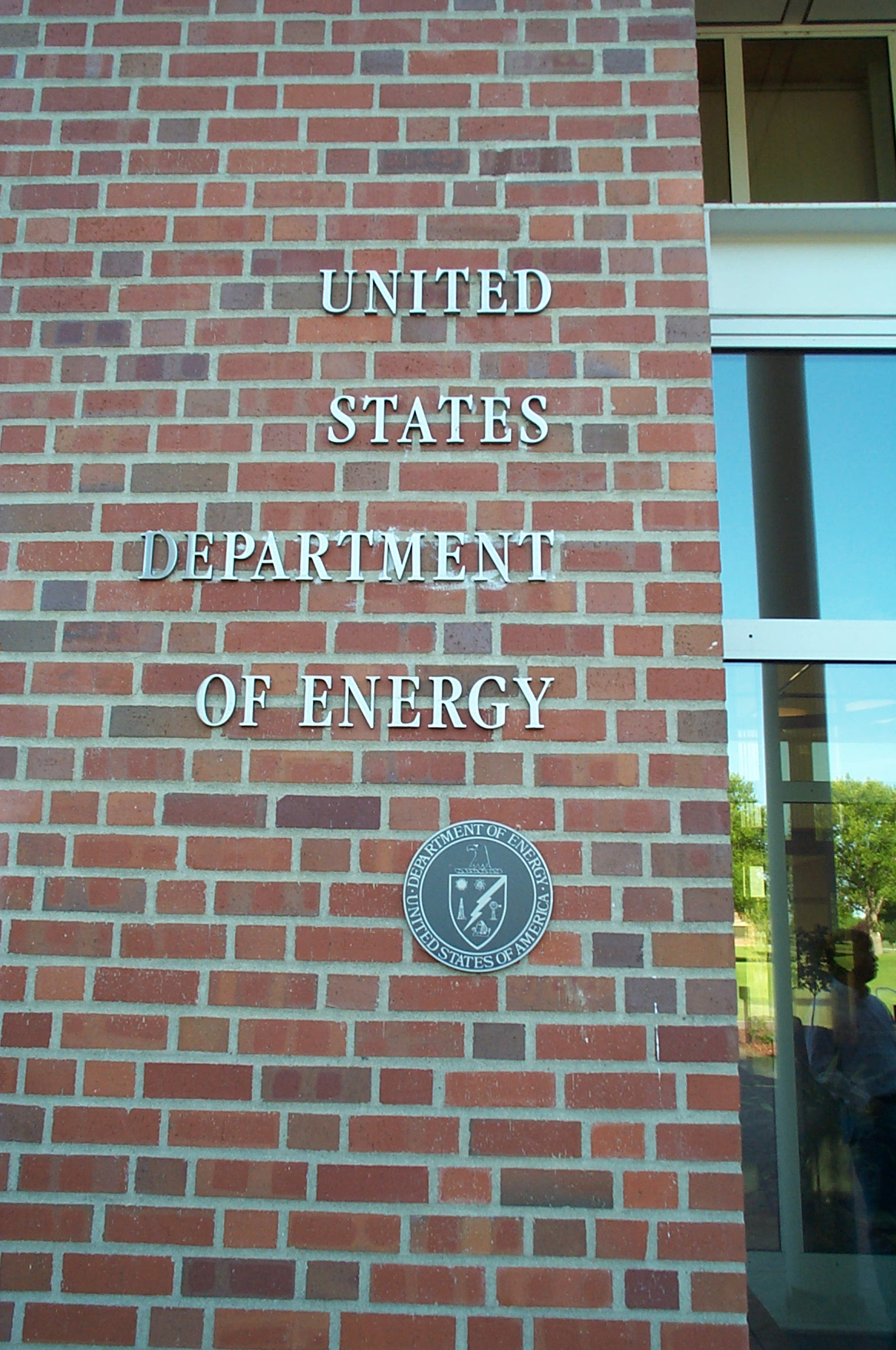 United States Department of Energy logo as seen at the Pacific Northwest National Laboratory, 2001-06.